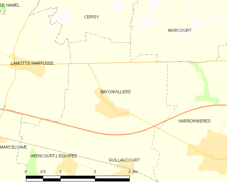 Map of French municipality Bayonvillers